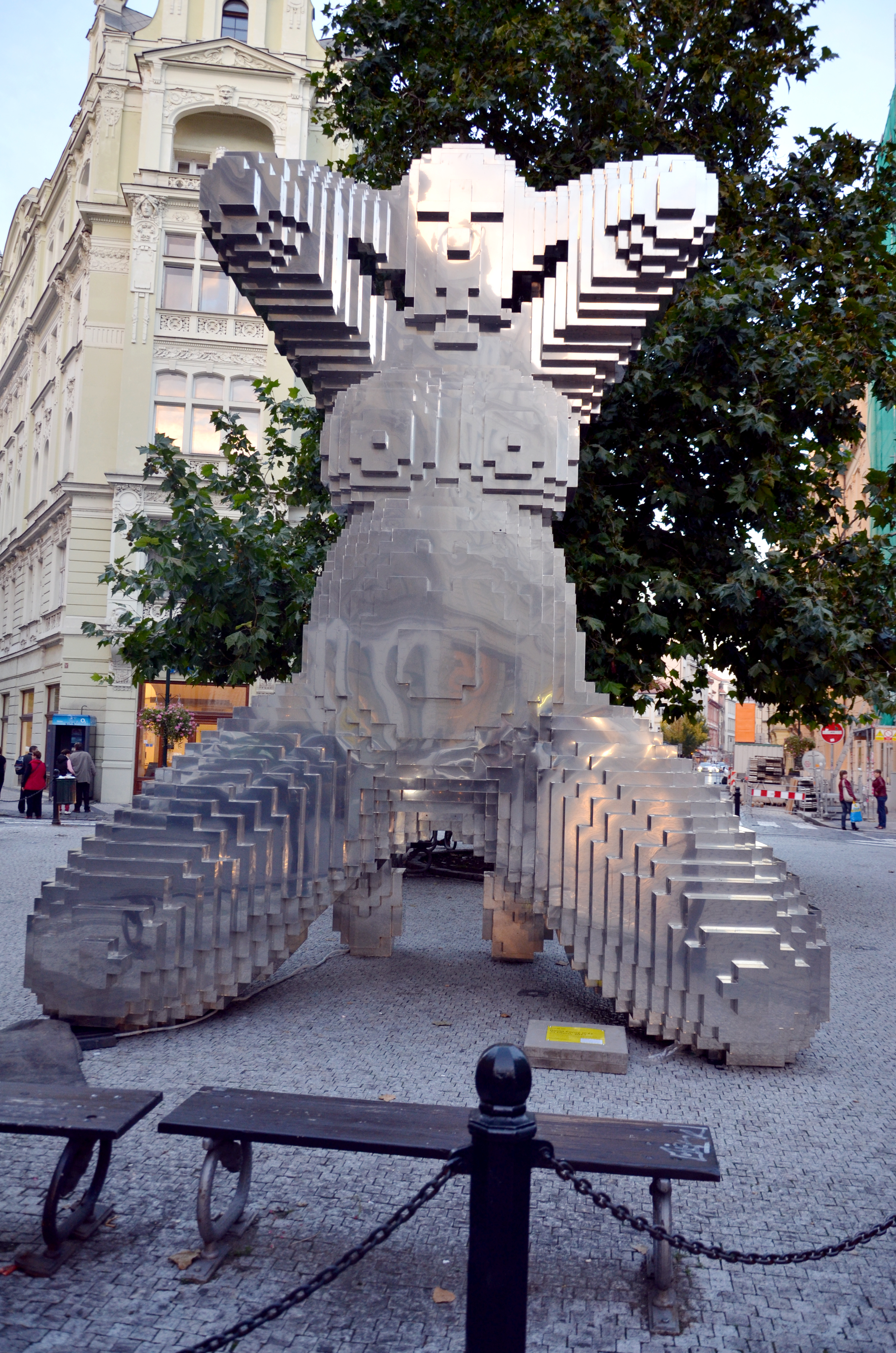 Sculpture by Czech sculptor David Černý, Dlouhá street, Prague